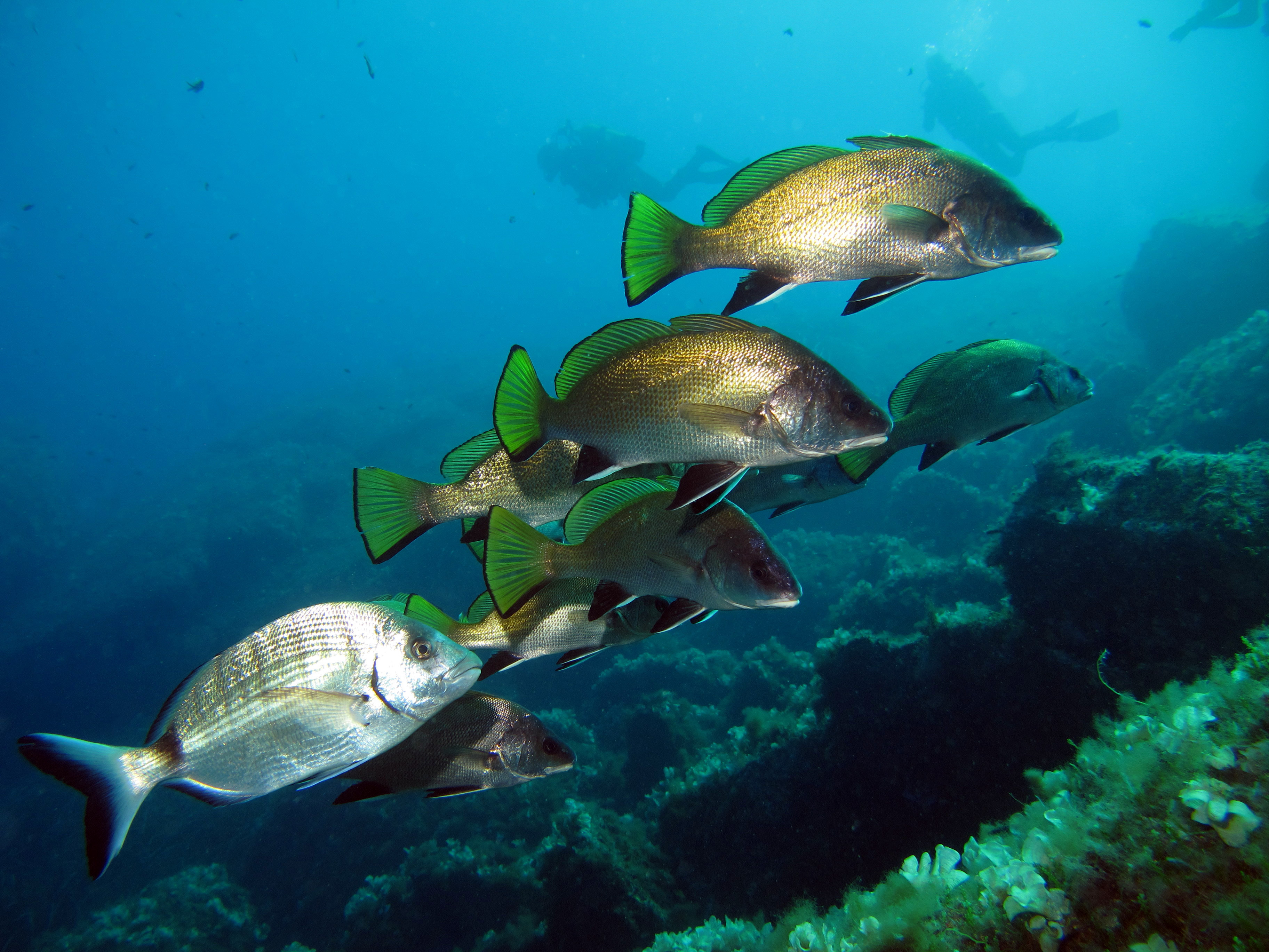 Some Sciaena umbra shot in the marine protected area of Port-Cros near the Gabinière Rock